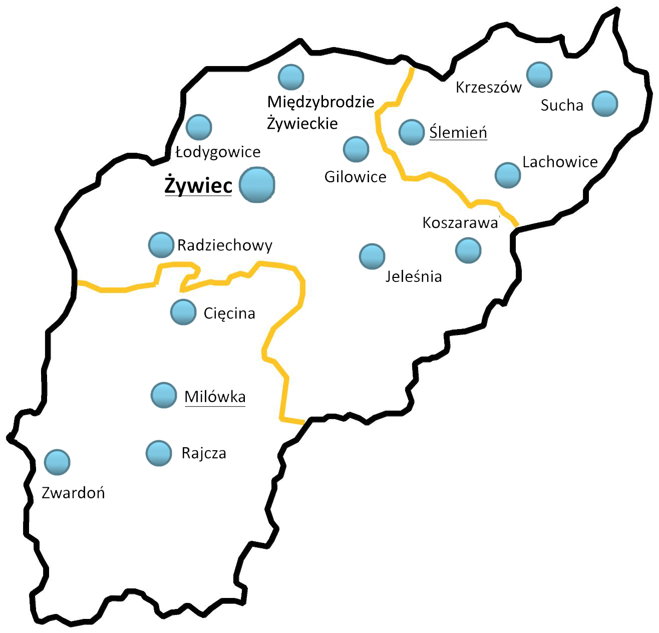 Żywiec country (Poland), 1867-1920 Yellow lines - borders of court countries Underline - capital of court country